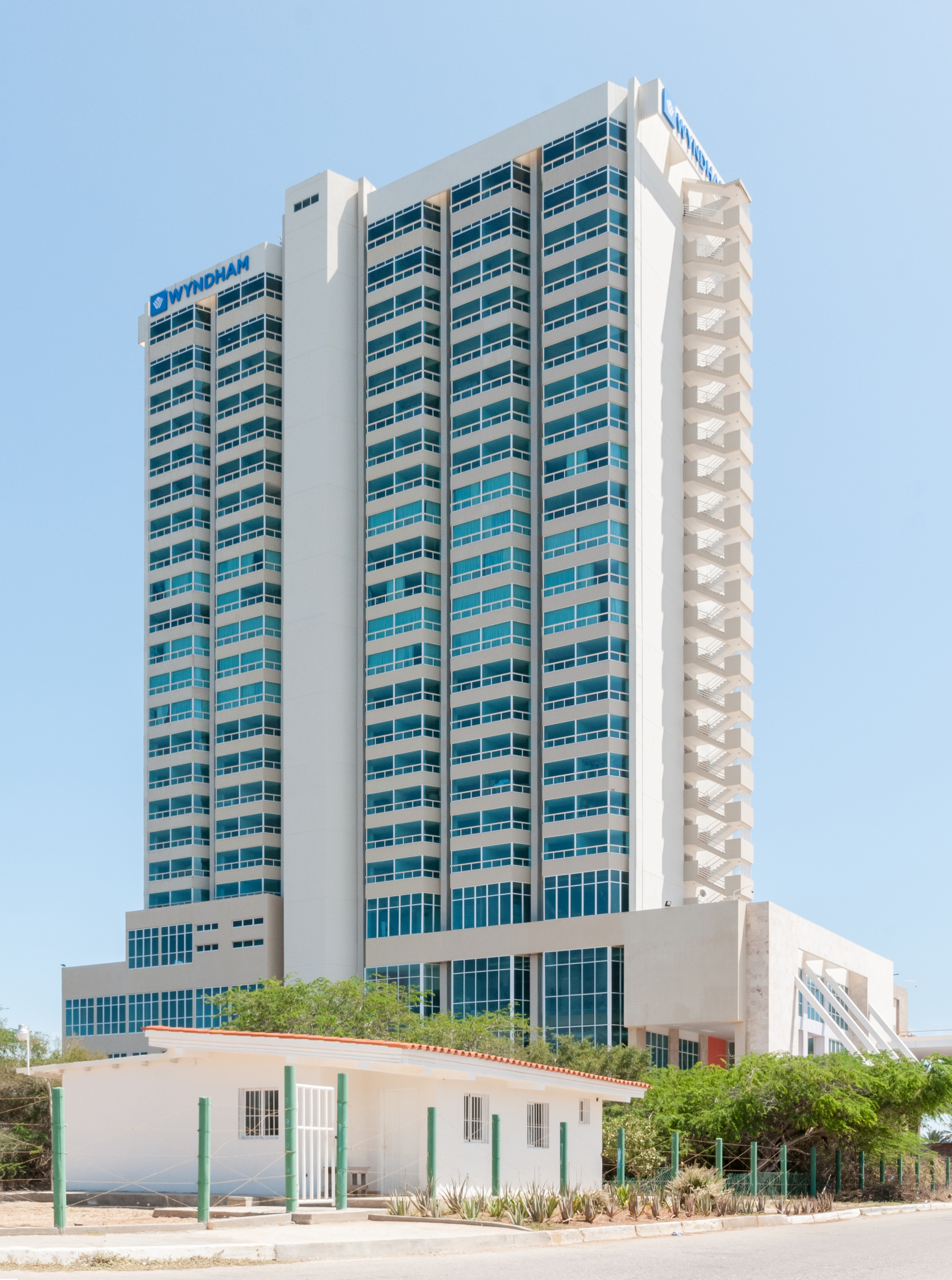 Wyndham Isla Margarita Concorde hotel